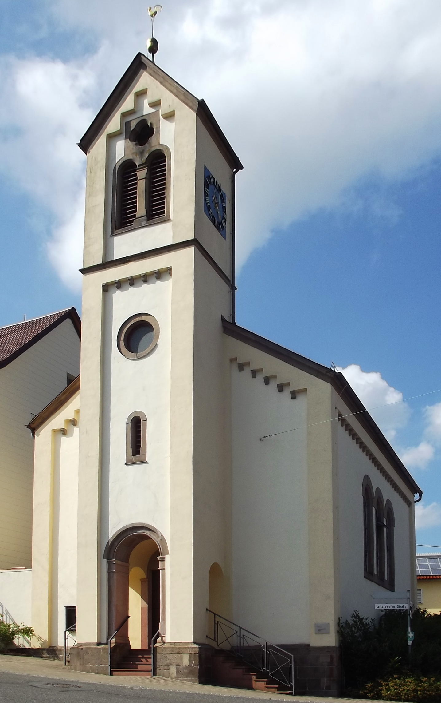 Exterior of the prostestant church in Hoof, Saarland